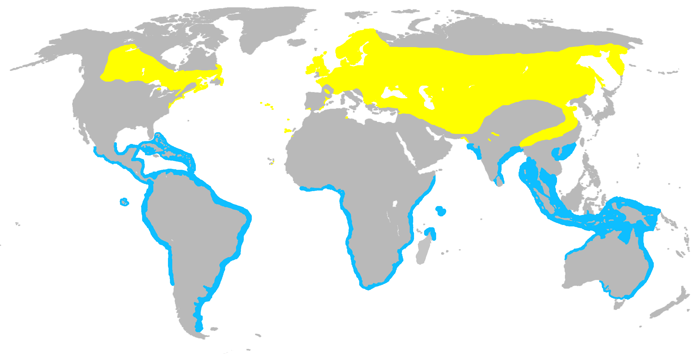 Distribution map of Common Tern Sterna hirundo